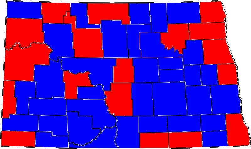 1986 North Dakota Senate election results by county.